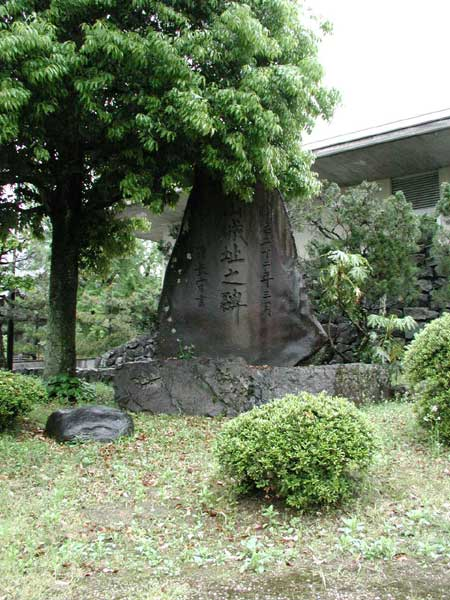 photo by Satoshin